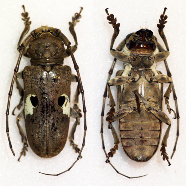 Drury,1773 Sex: Female Data: 07-2013 - Missahoe Forest - Mt Kloto - Togo Size: ?